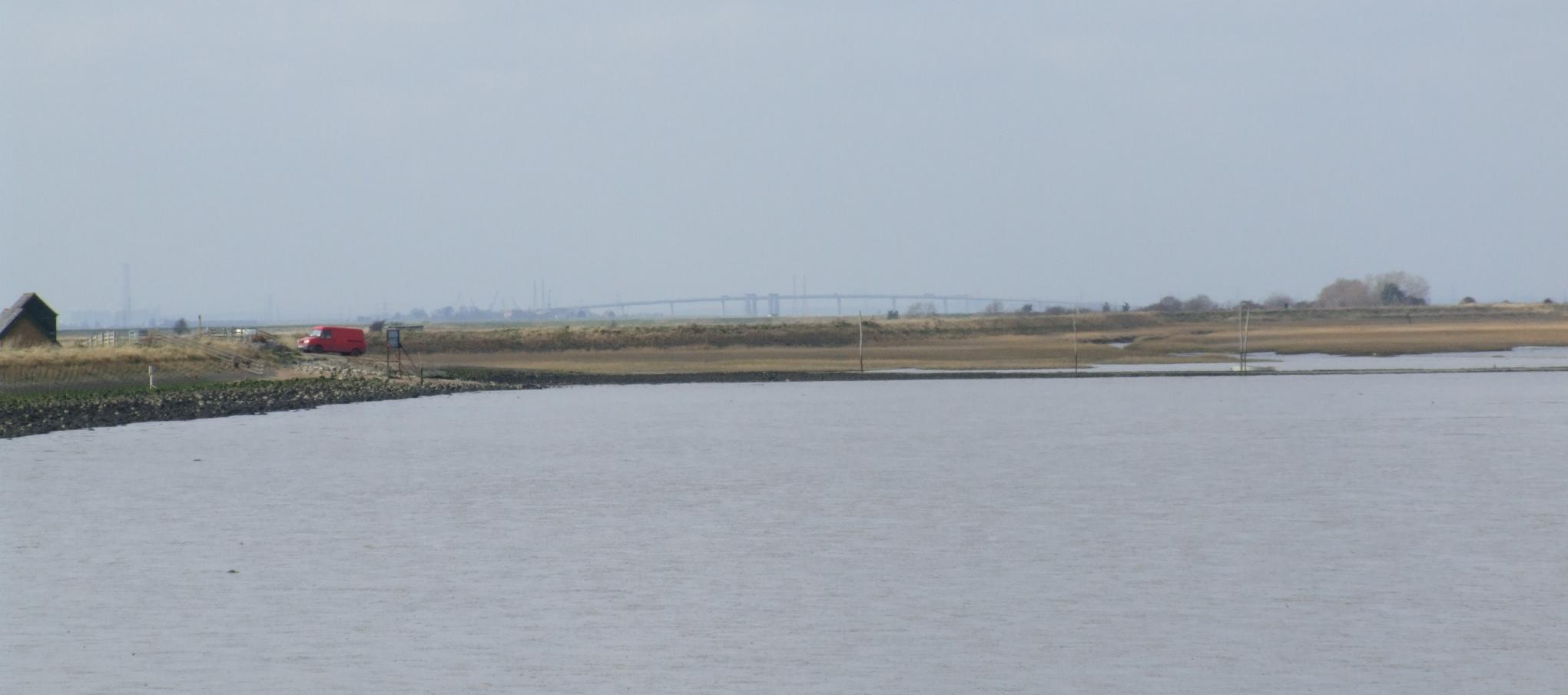 Oare, Kent is a village in Kent on the west bank of the Oare Creek, near Faversham.To the north of the village are the Oare Marshes and the The Swale. The Sheppey Crossing and Kingsferry Bridge from Oare.